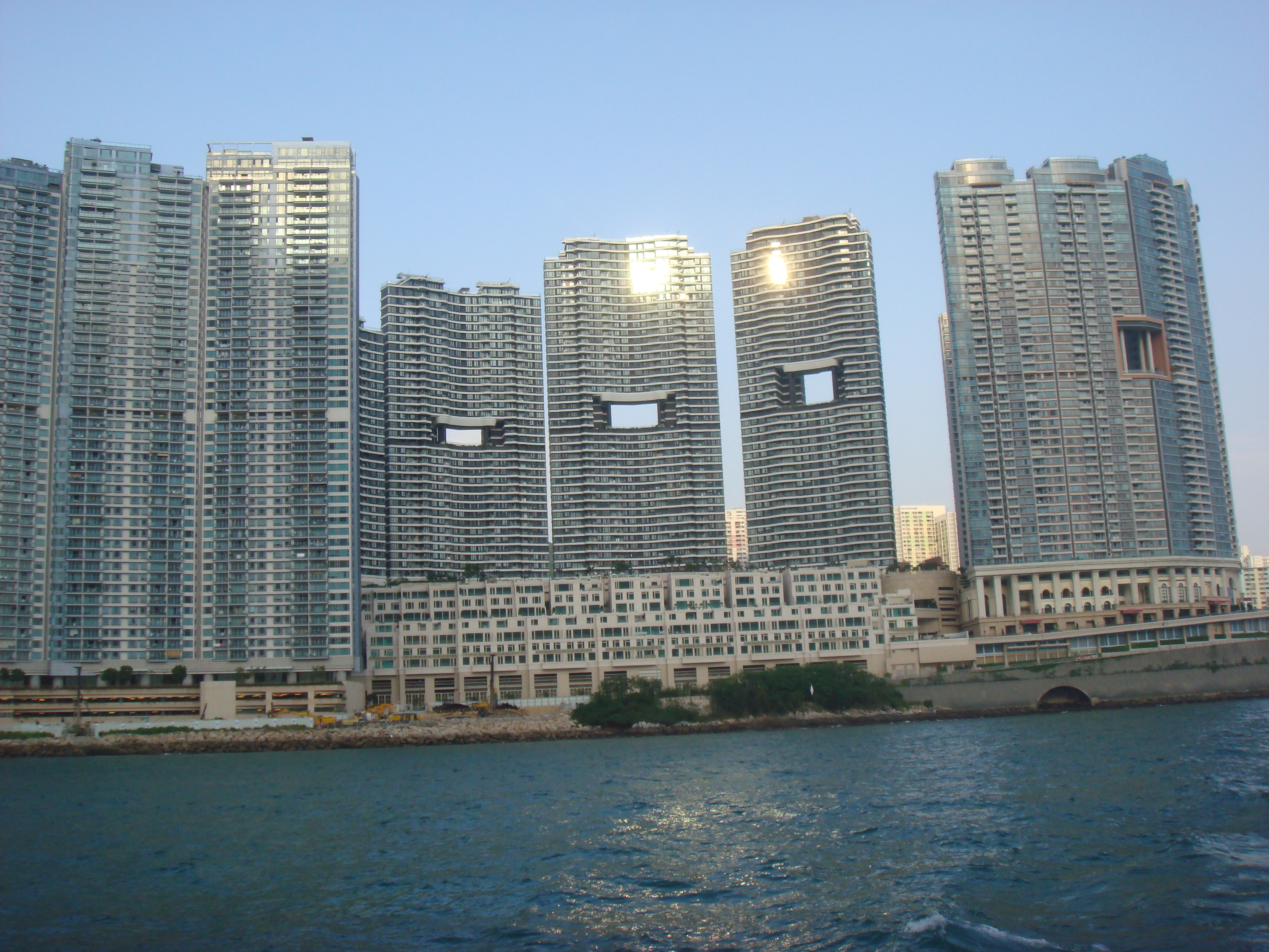 Residence Bel-Air, Hong Kong